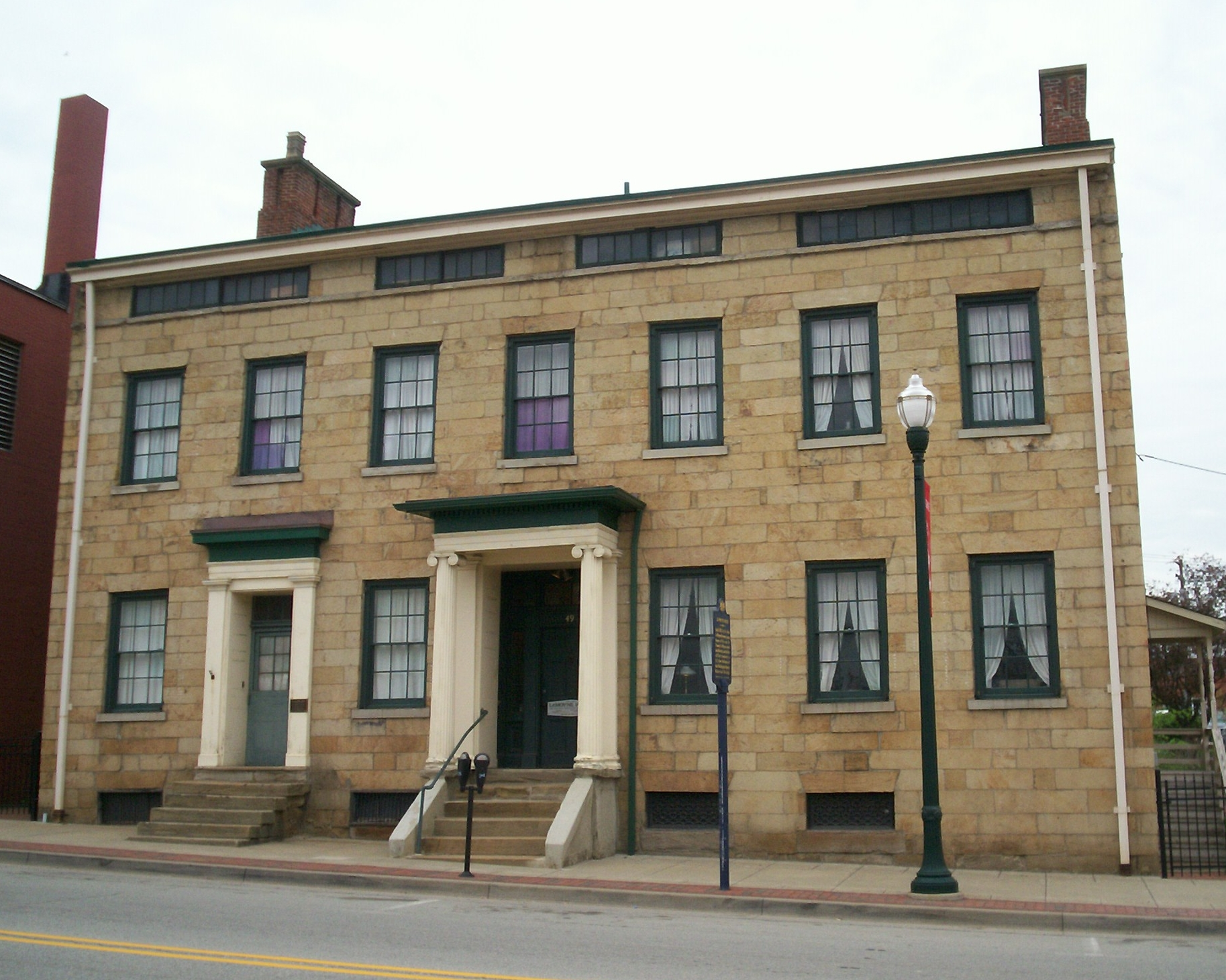 Former home of F. Julius LeMoyne in the city of Washington, Pennsylvania. Now preserved as a historic house museum and the headquarters of the Washington County Historical Society.